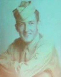 Frank Truitt in his WWII uniform.